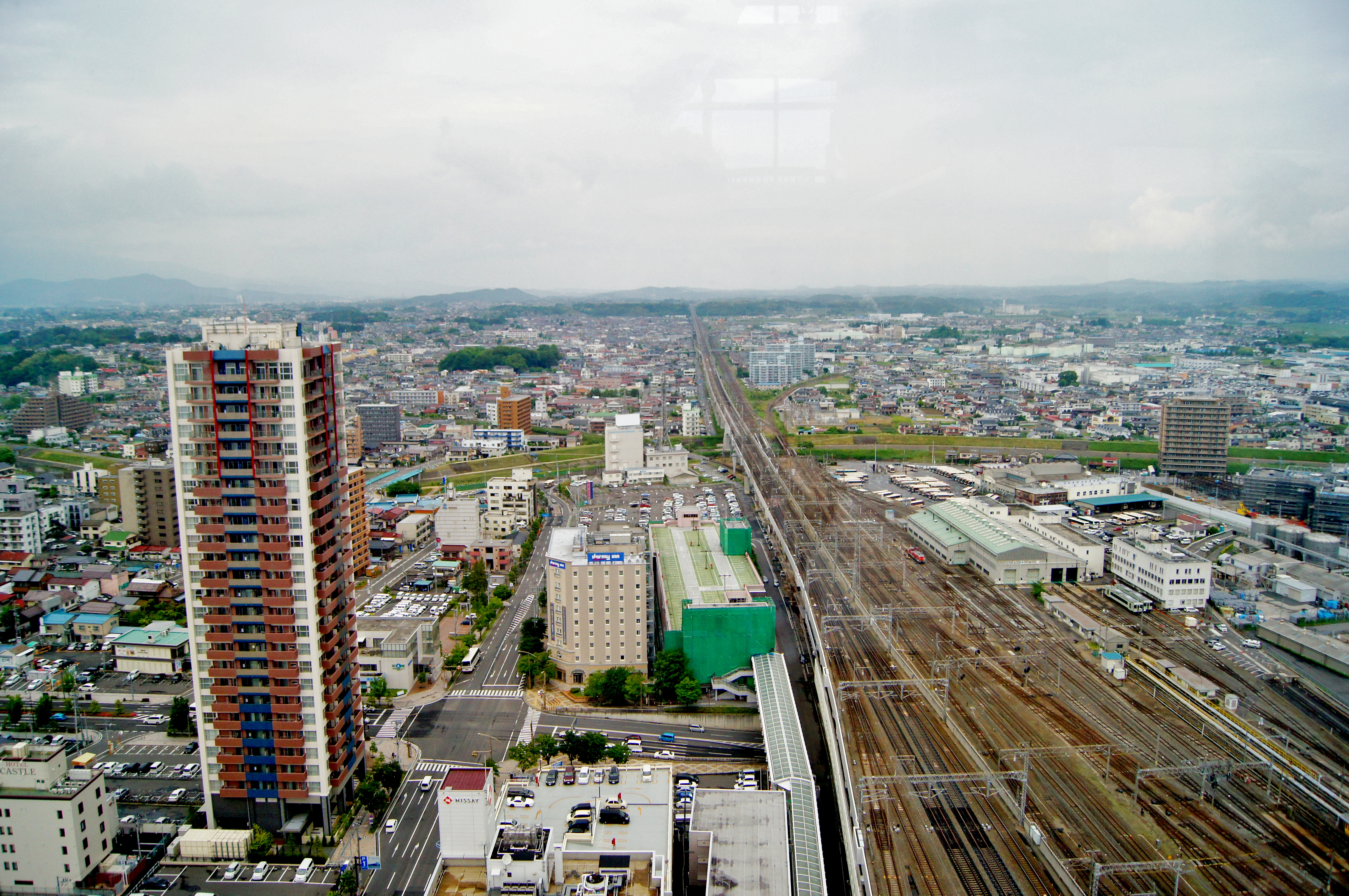 View of Koriyama city from the Planetarium next to the station